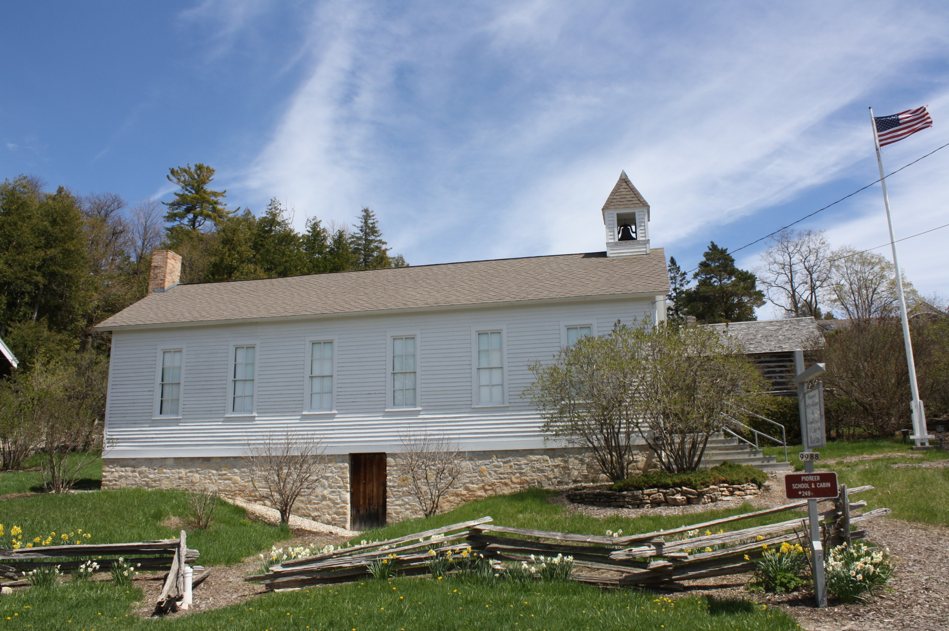 The Gibraltar District School No. 2 in Ephraim, Wisconsin. It is listed on the National Register of Historic Places.